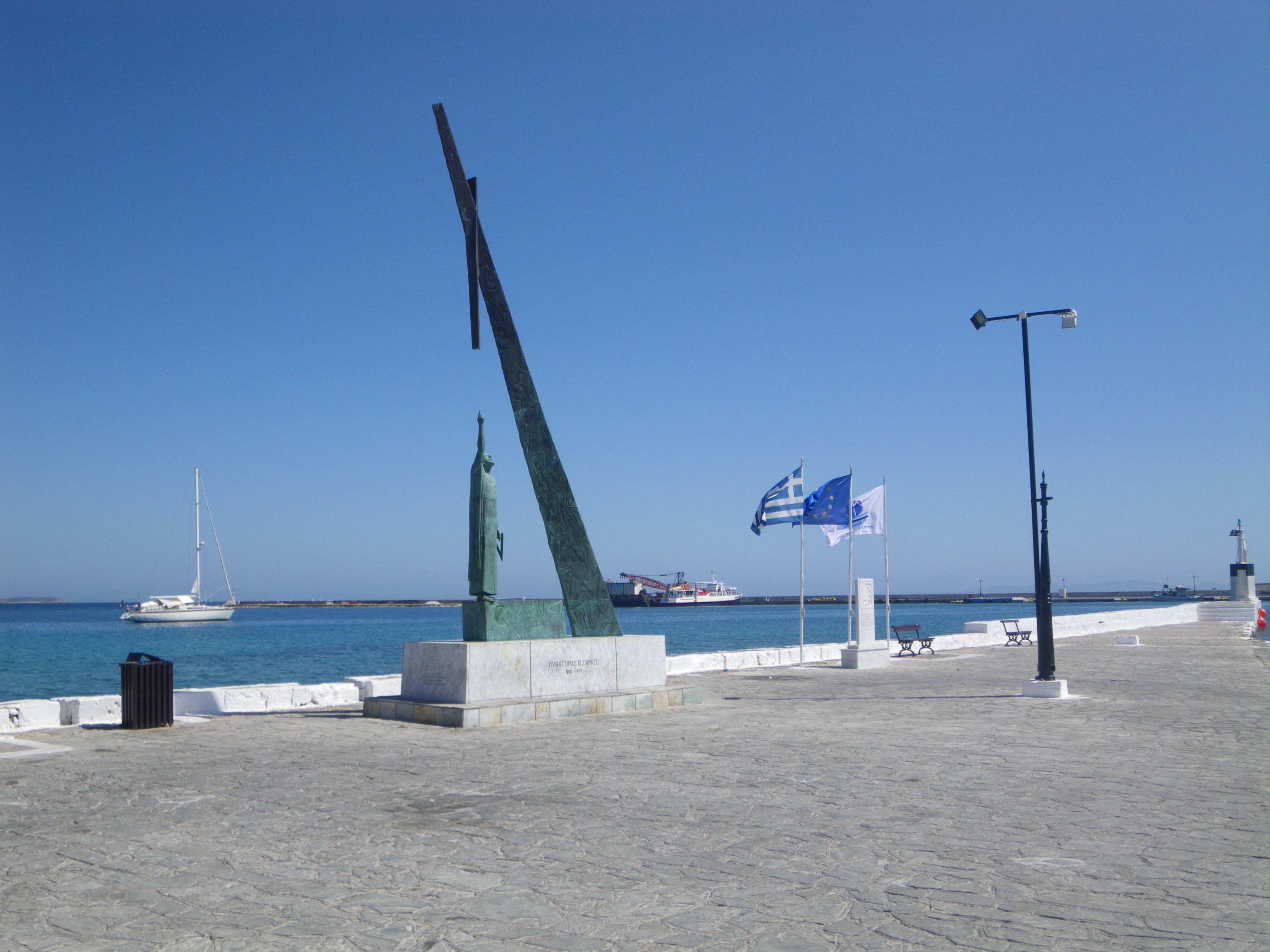 Full view of the Pythagoras Monument with a cloud-free Aegean sea behind it. It still gives great inspiration for great thoughts even if not all of them might make the books like old Python's theorem on right-angled triangles. Too bad really that is all most people know him for. He did have a number of other interesting ideas as well.